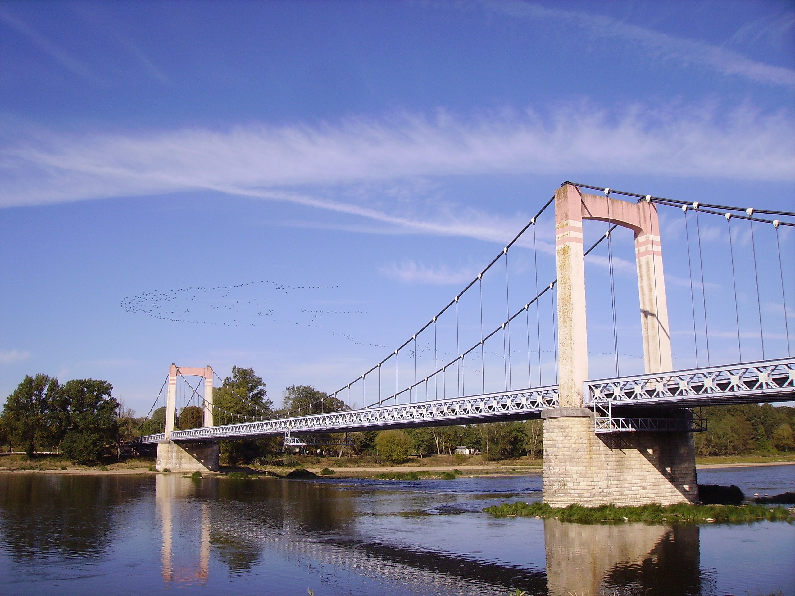 Bridge (upstream side) over the Loire River in Cosne-Cours-sur-Loire and cranes in flight, Nièvre, Burgundy, France.